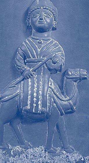 Al-lāt on a camel. The bas-relief from the city of Taif, Saudi Arabia, around 100 AD.